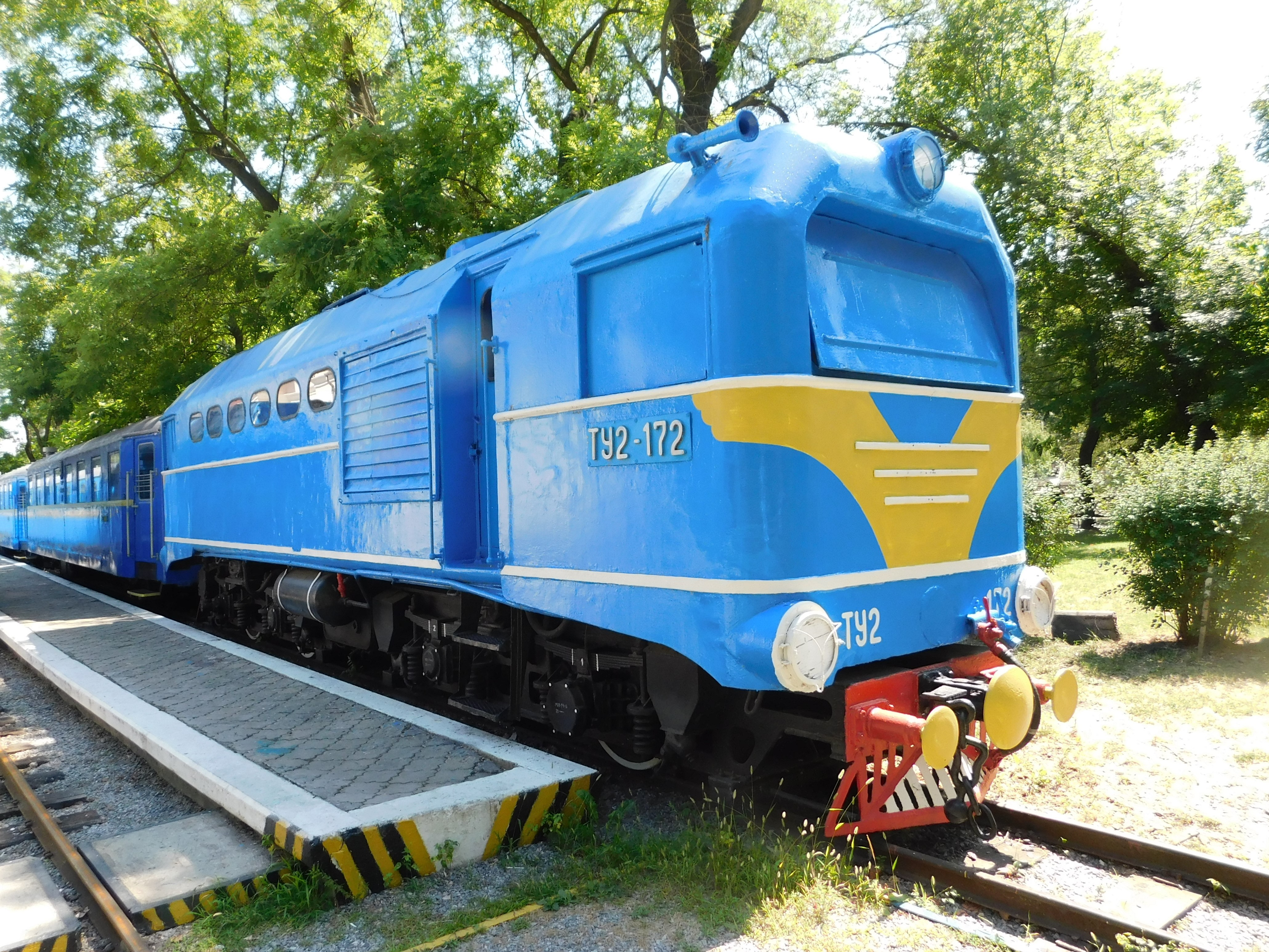 Blue TU2-172 diesel locomotive with passenger carriages in Dnipro, Ukraine.